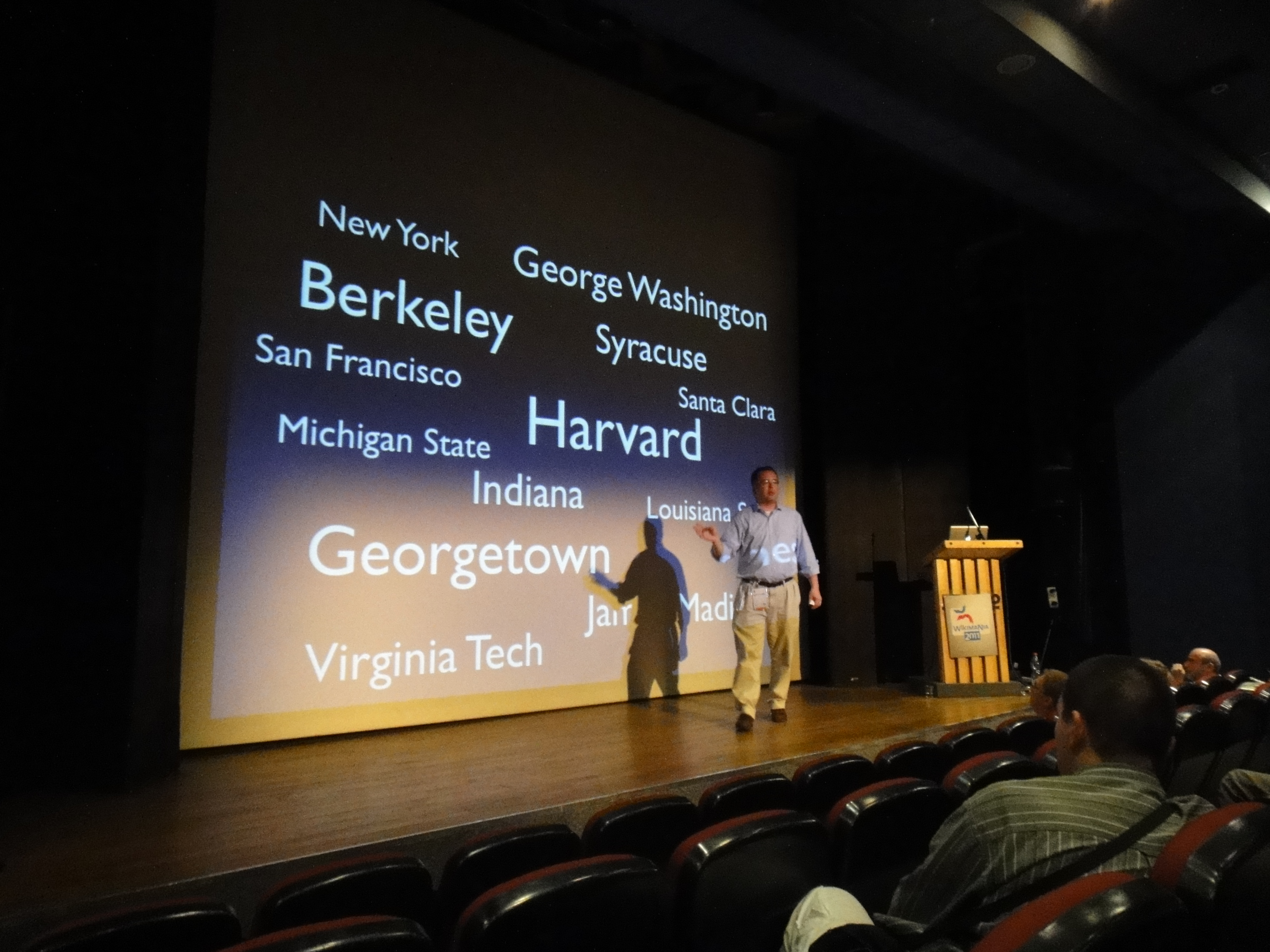 Frank Schulenburg during his presentation Taking Wikipedia in higher education to the next level, Wikimania 2011 in Haifa, Israel (August 4, 2011)